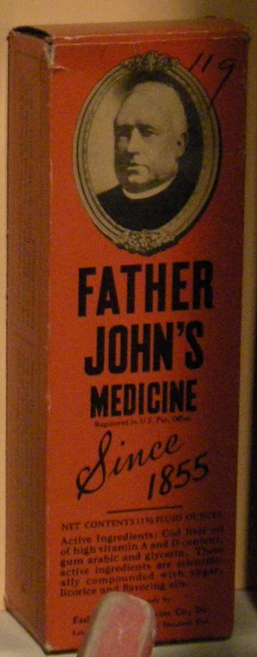 Father John's Medicine (partly obscured), Edmonds Historical Museum, Edmonds, Washington.